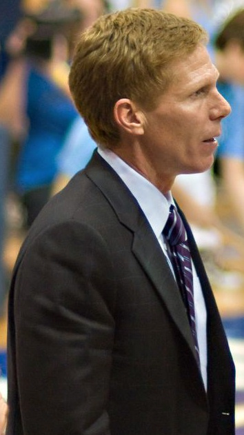 Gonzaga University's head men's basketball coach Mark Few during a game against the USD Toreros on February 18, 2008.